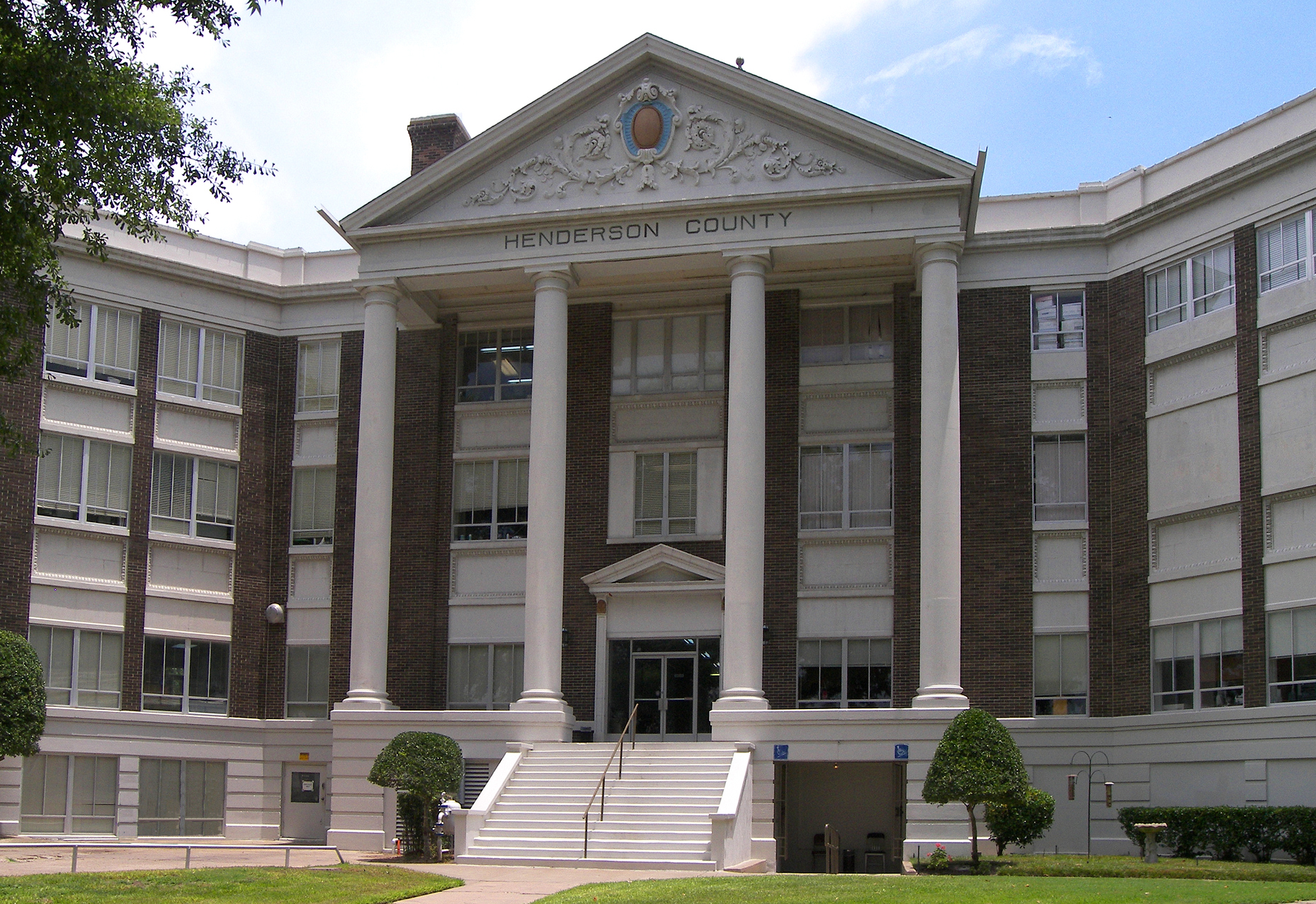 The Henderson County, Texas courthouse located in Athens, Texas, United States. The The Neoclassical style courthouse was built in 1913 and designated a Recorded Texas Historic Landmark in 2003.